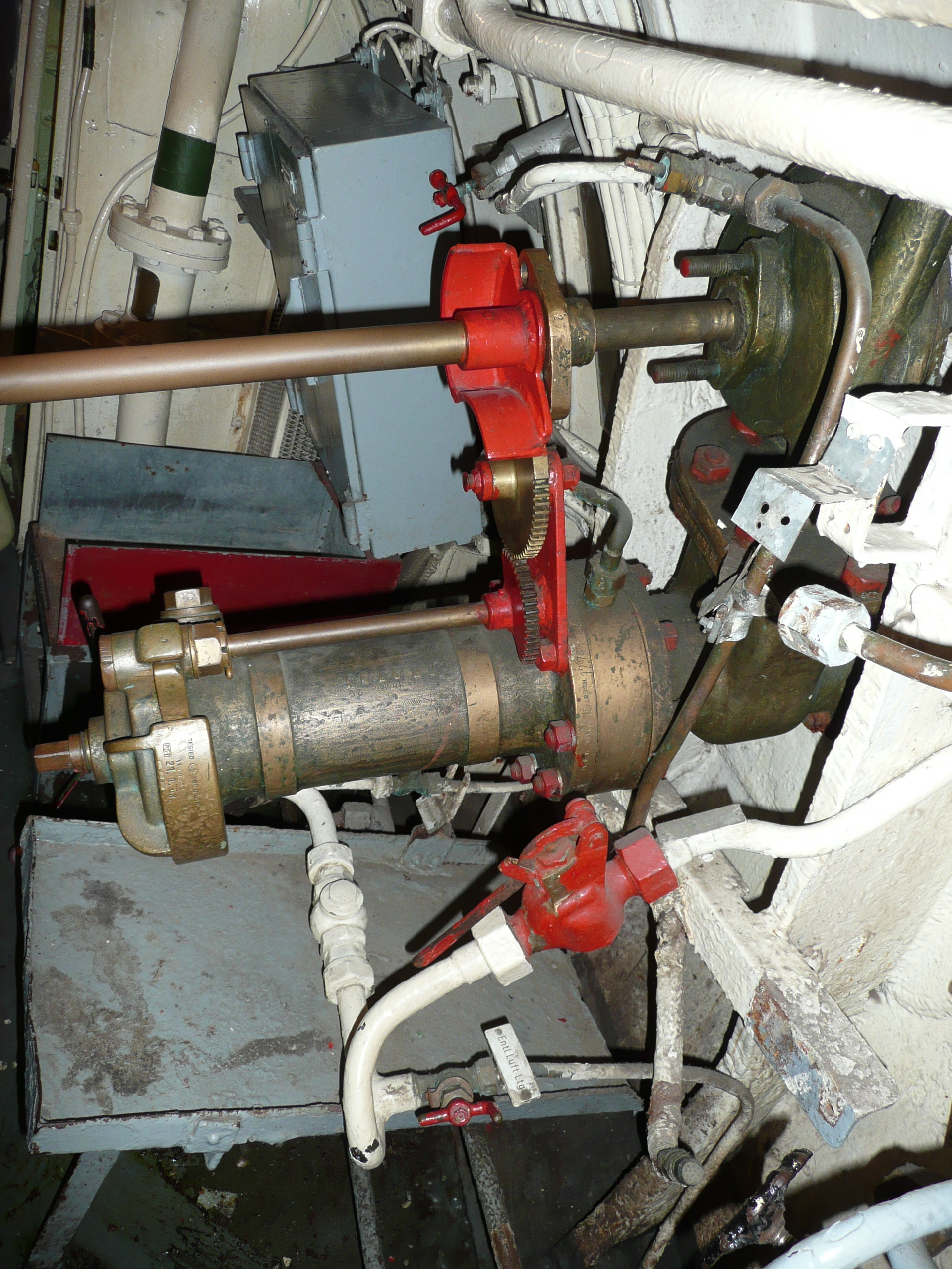 Decoy ejector in the stern compartment of the german type XXI submarine U 2540 / Wilhelm Bauer.